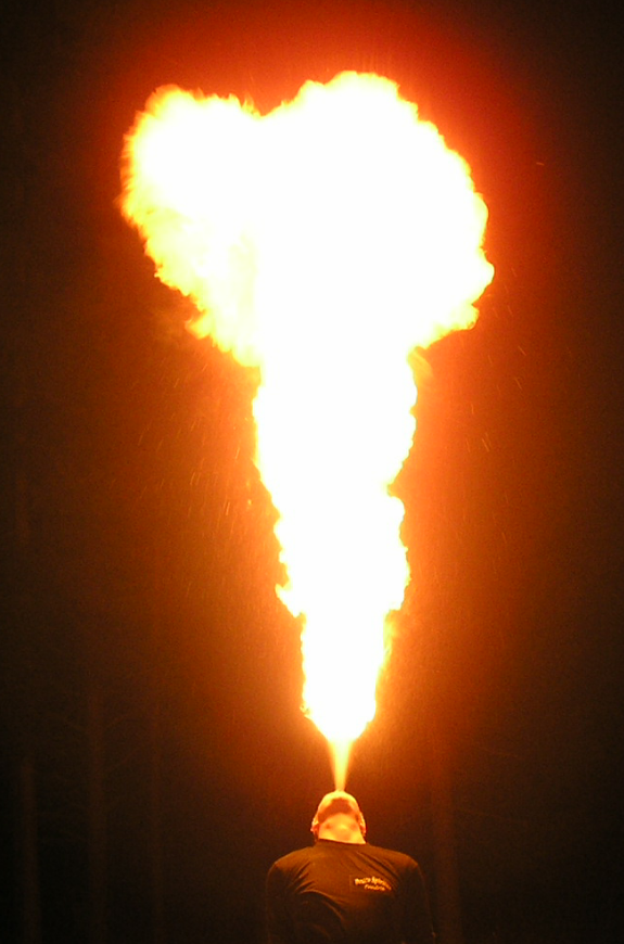 This is called doing "The Dragon"